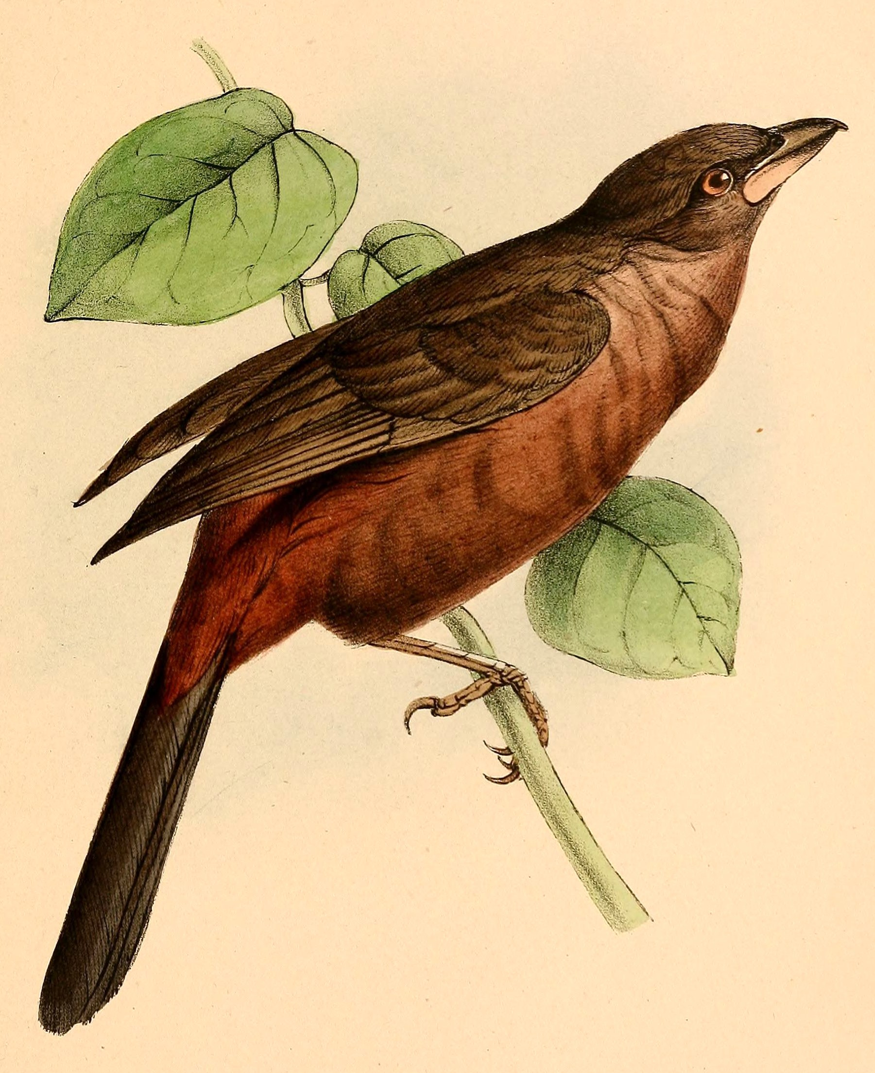 « Ramphopis coccineus » = Ramphocelus bresilius (Brazilian Tanager) - female